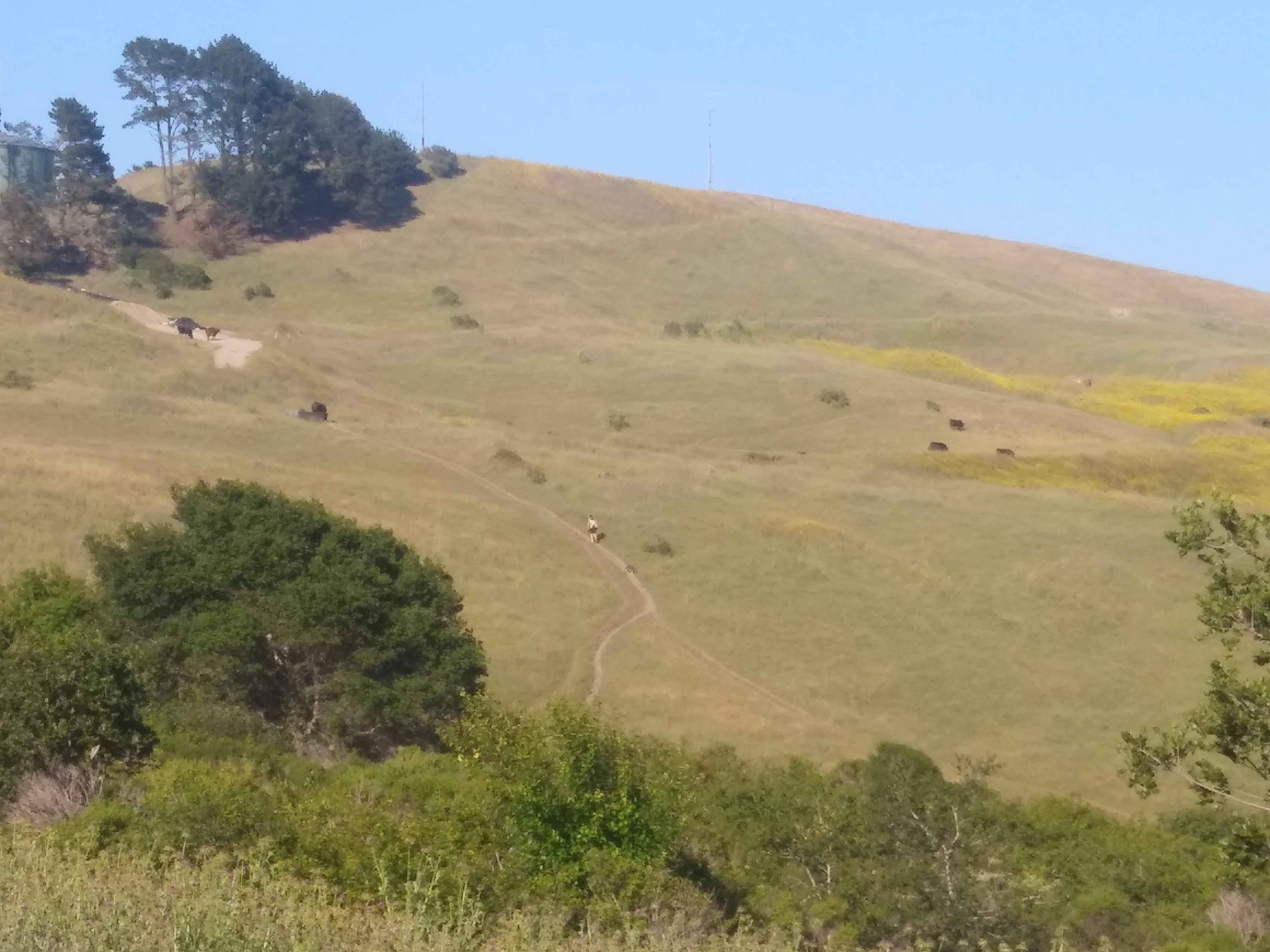 Ranching activity in Wildcat Canyon, Richmond, California